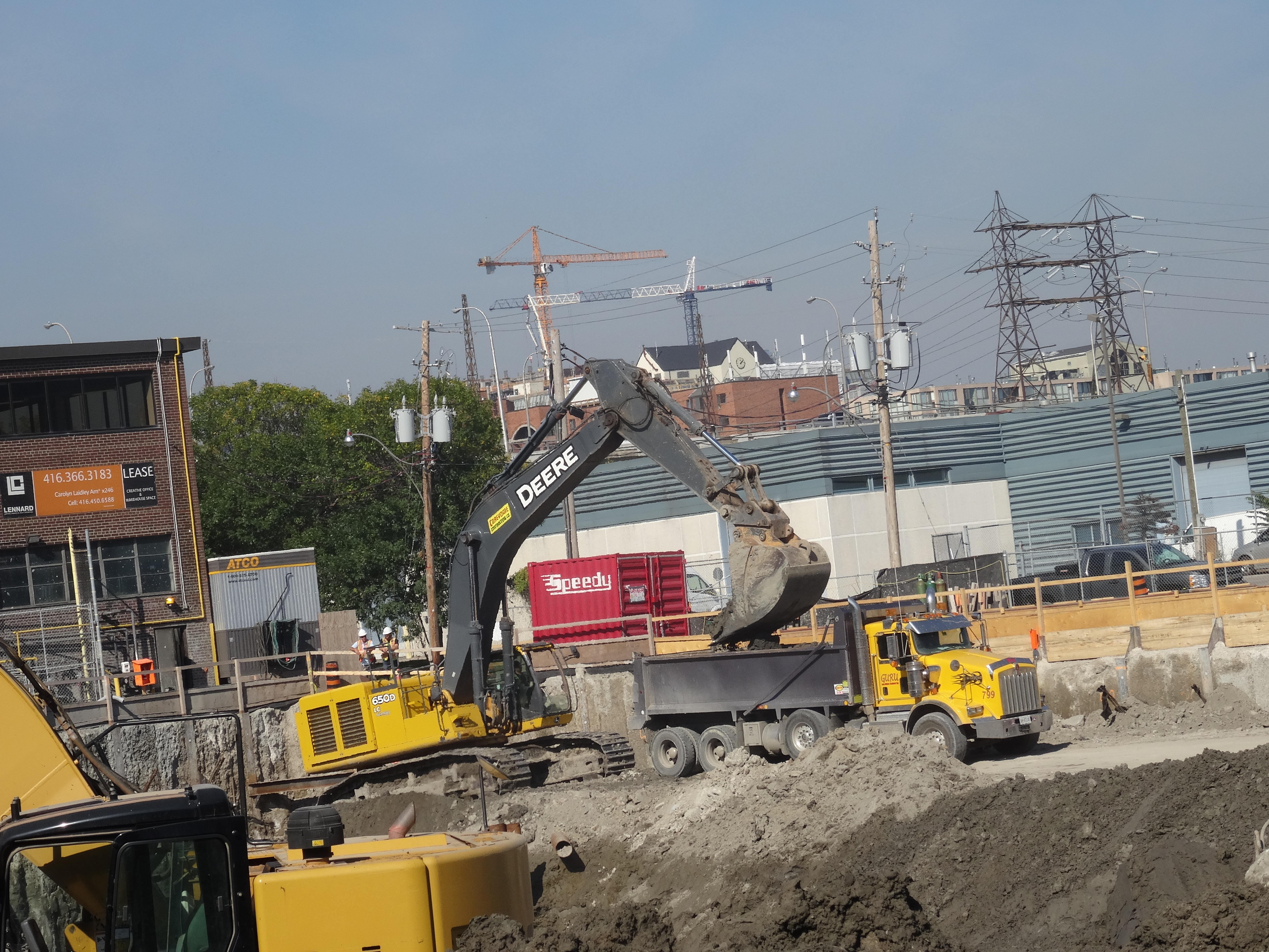 It takes this backhoe five buckets to load one of it dump trucks, 2015 09 23 (1).JPG